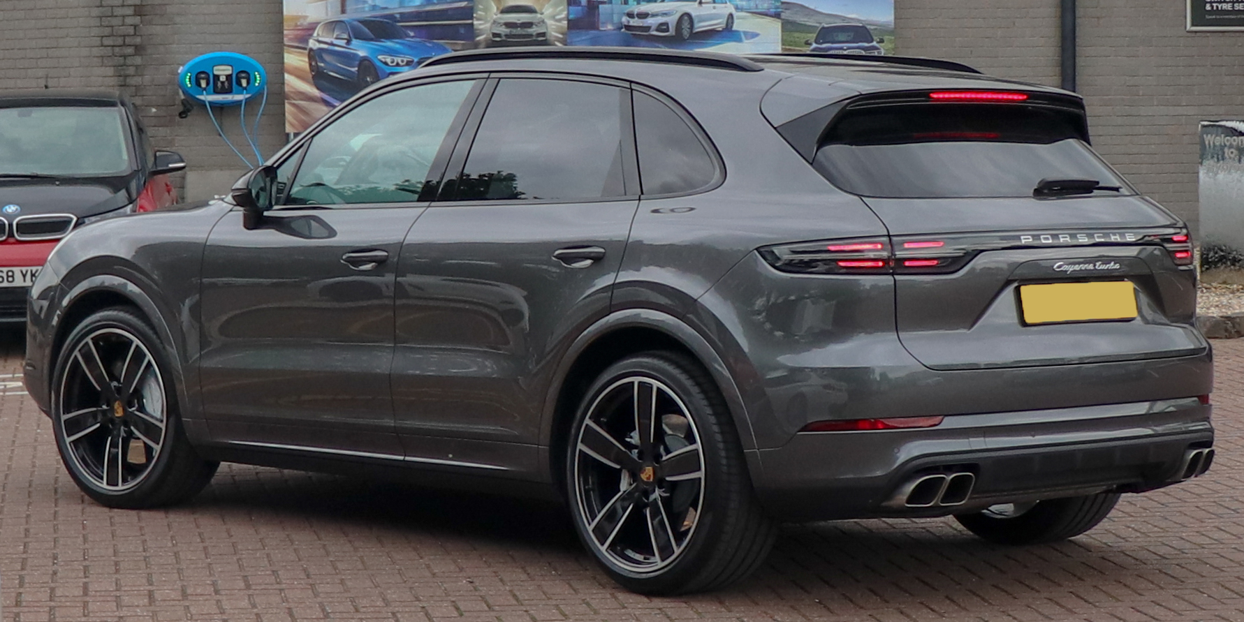 2019 Porsche Cayenne V8 Turbo Tiptronic 4.0 Rear Taken in Leamington Spa